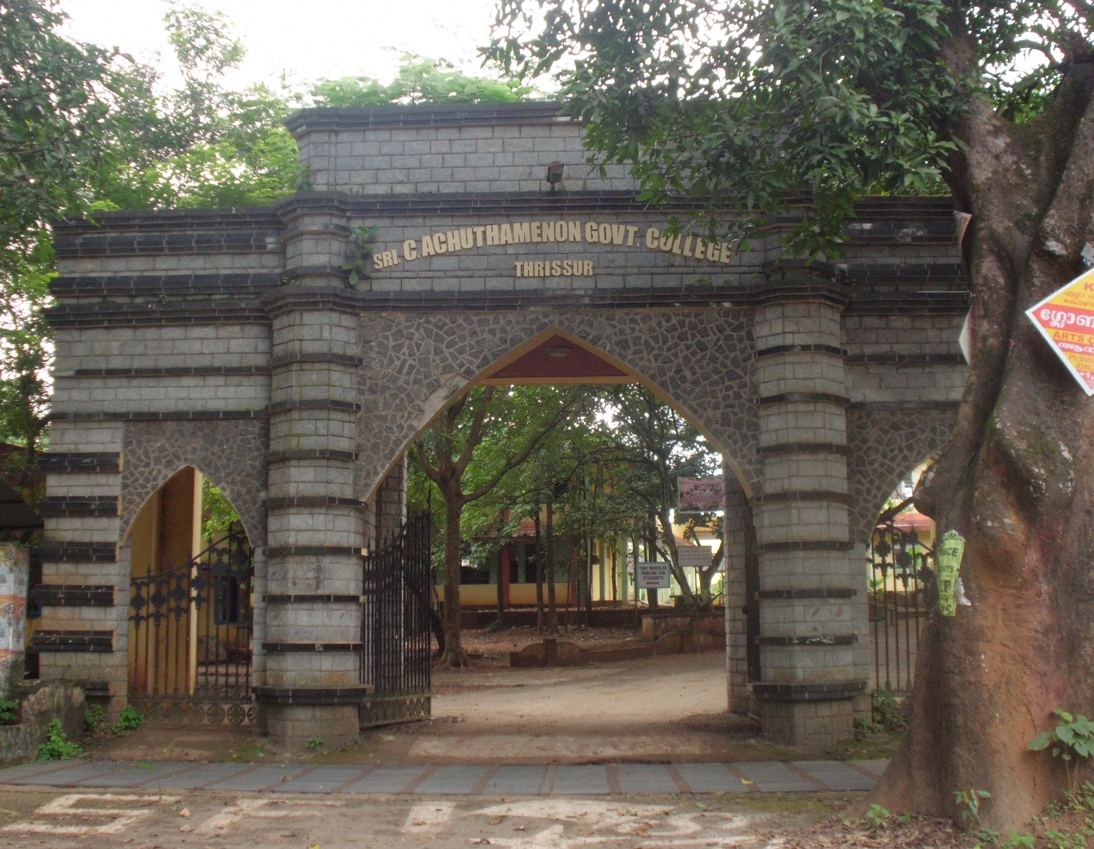 The entrance of Sri. C. Achutha Menon Government College, Thrissur at Kuttanellur. The college was originally functioning within the city of Thrissur (at the Model Boys High School campus). During late 1900s, it was relocated to a larger independent campus away from the heart of city and was renamed to commemorate the name of late Shri. C. Achutha Menon, a reputed former Chief Minister of the Kerala State, India.